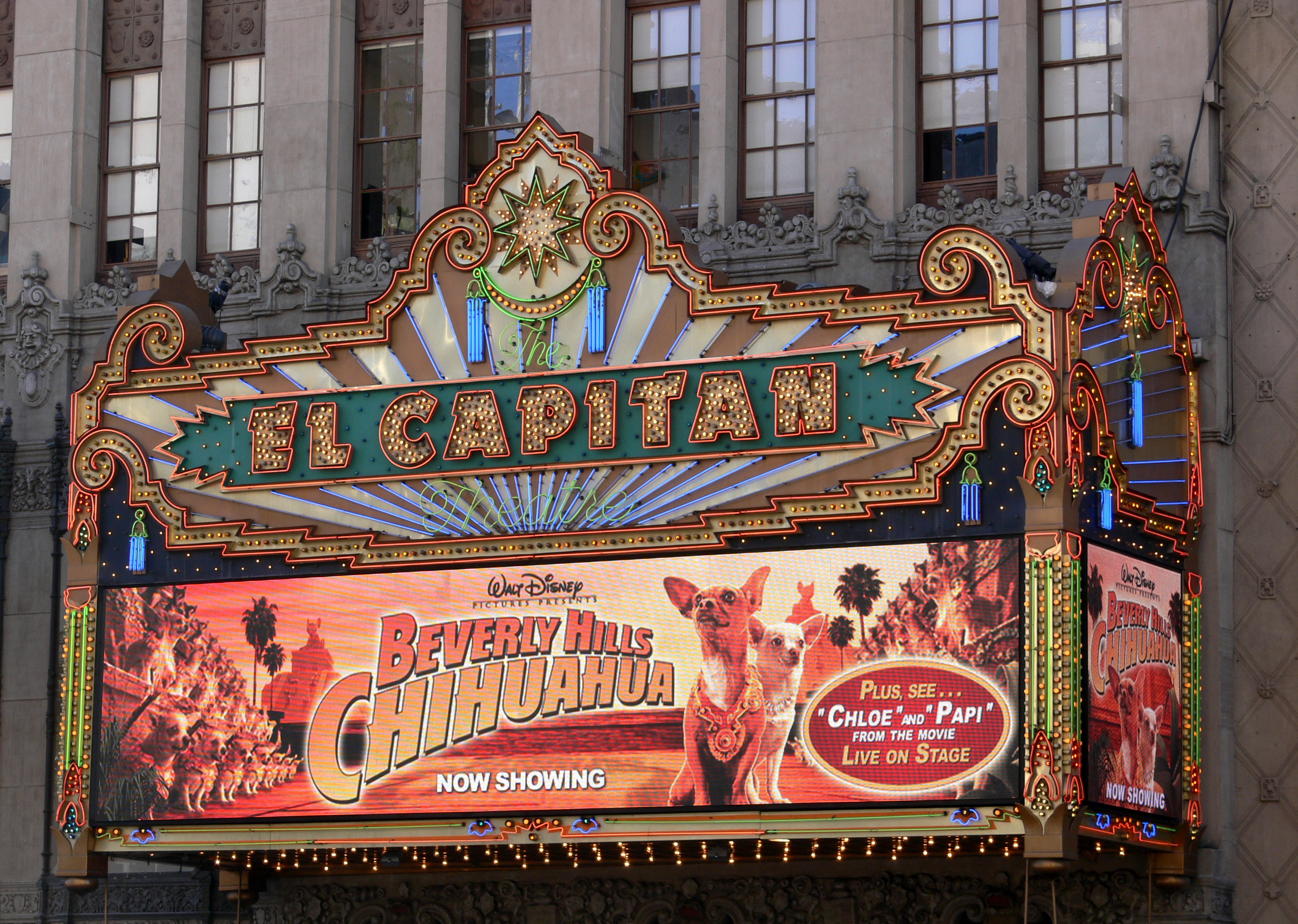 El Capitan Theater, Hollywood Boulevard, Los Angeles, California Marquee advertising the Disney movie "Beverly Hills Chihuahua" (2008)